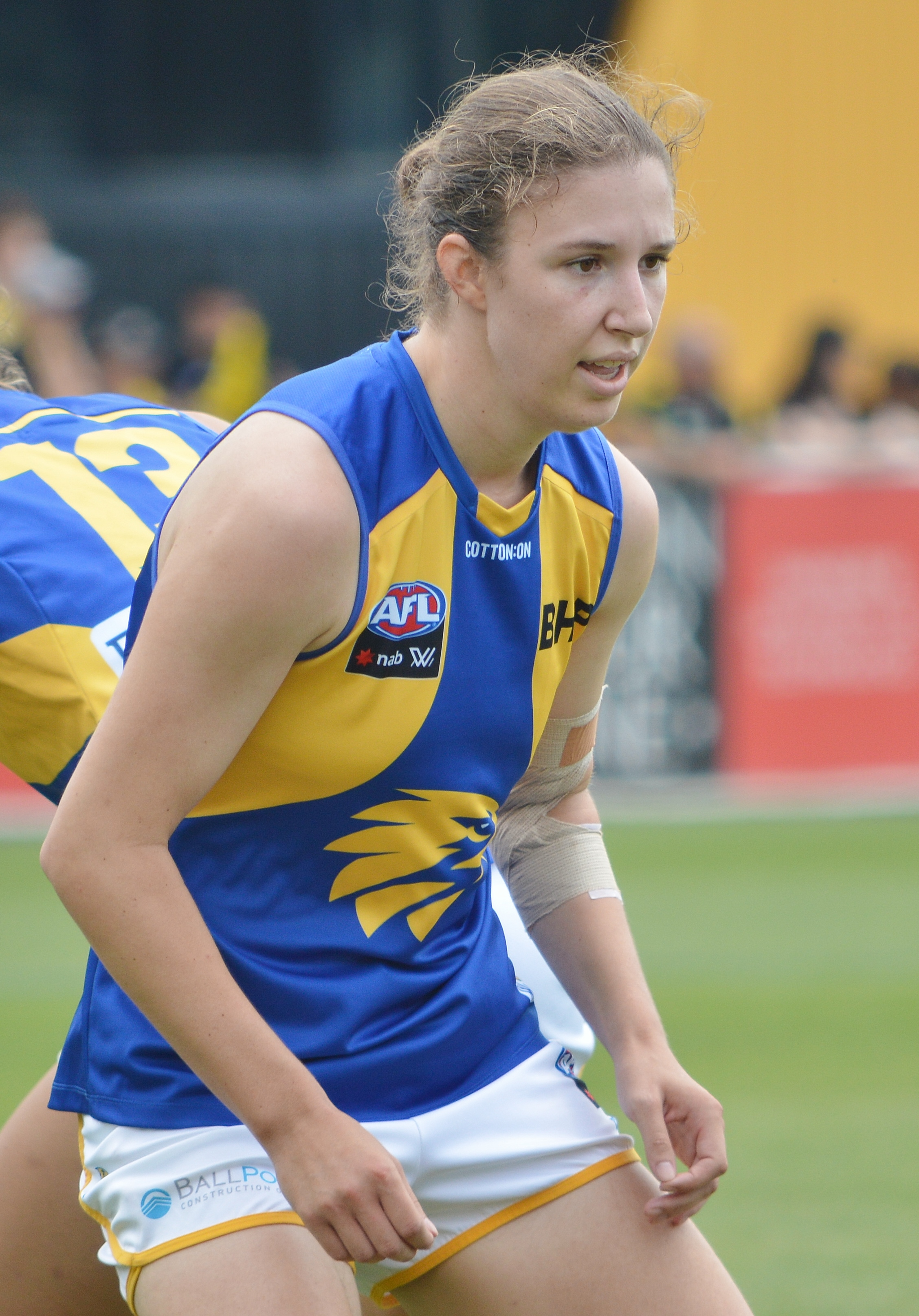 Sophie McDonald with West Coast during a pre-season AFL Women's match against Richmond at Punt Road Oval in January 2020.